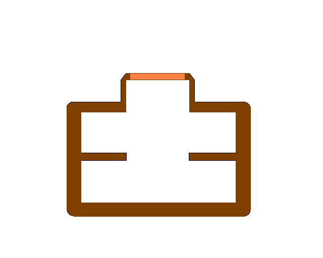 Schematic Cross Section of a Trunkdecker